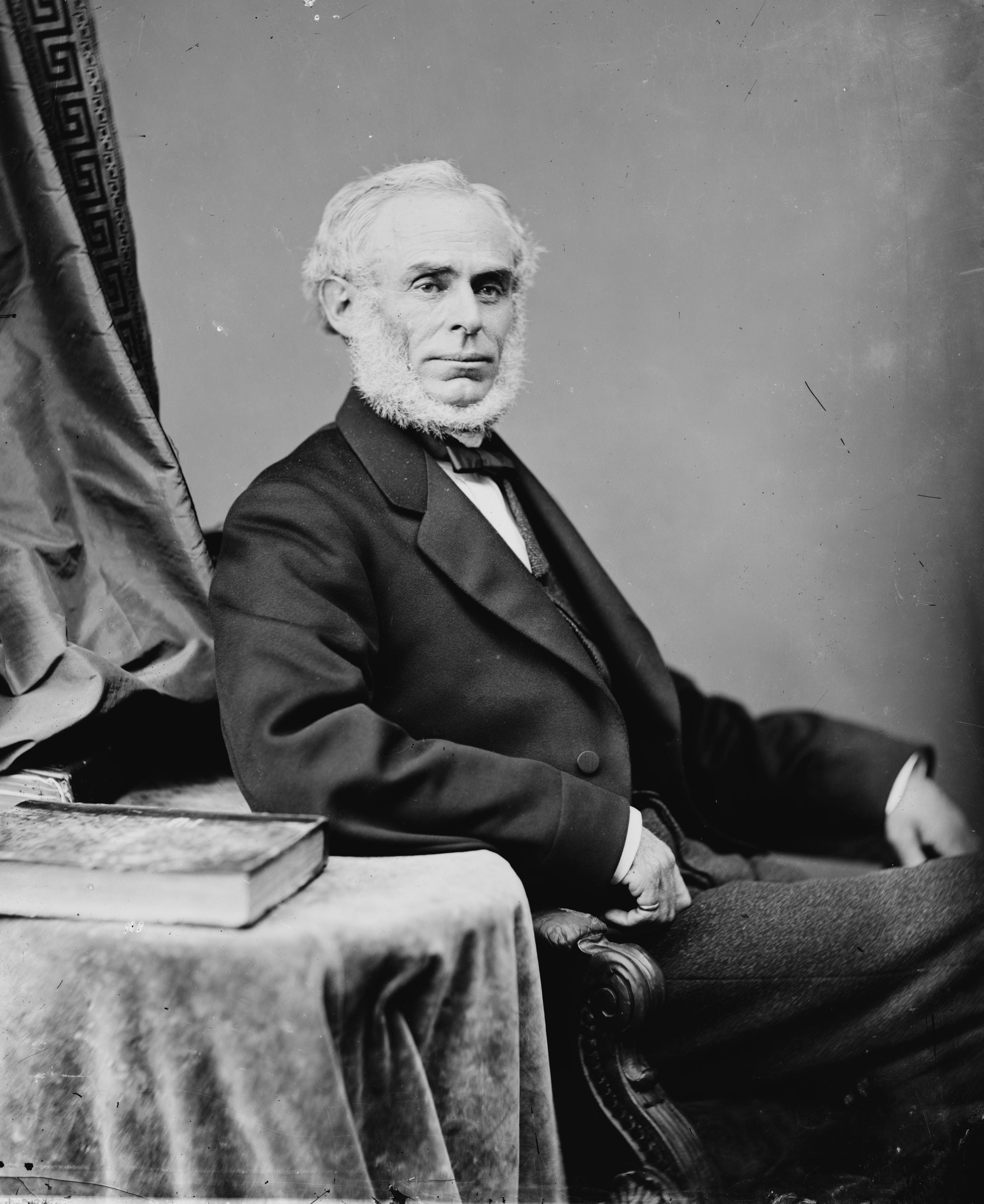 John W. Johnston. Library of Congress description: "Hon. John Warfield Johnston of Va."